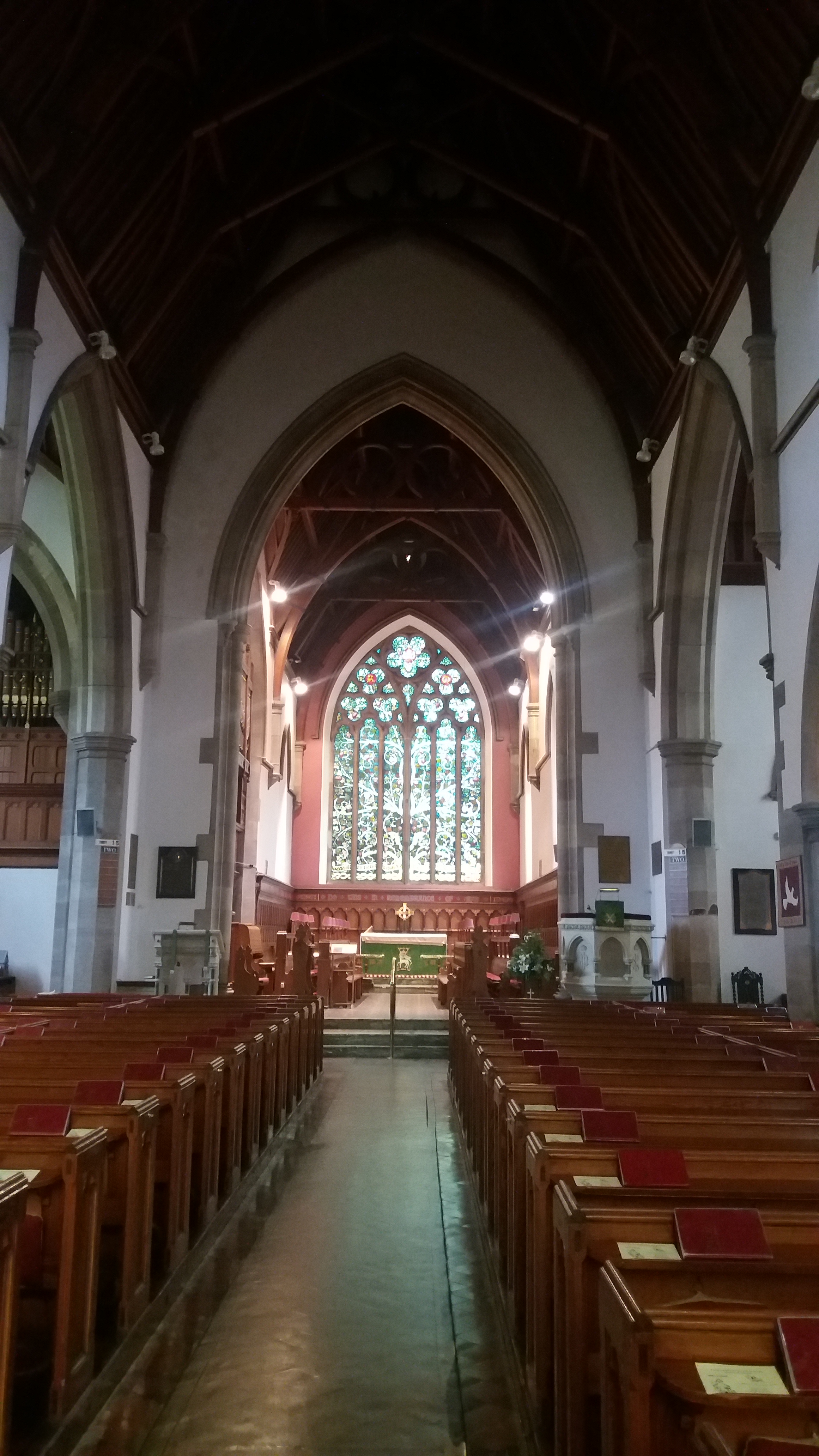 Inside St Patrick's parish church, Ballymena, County Antrim, looking east to the chancel